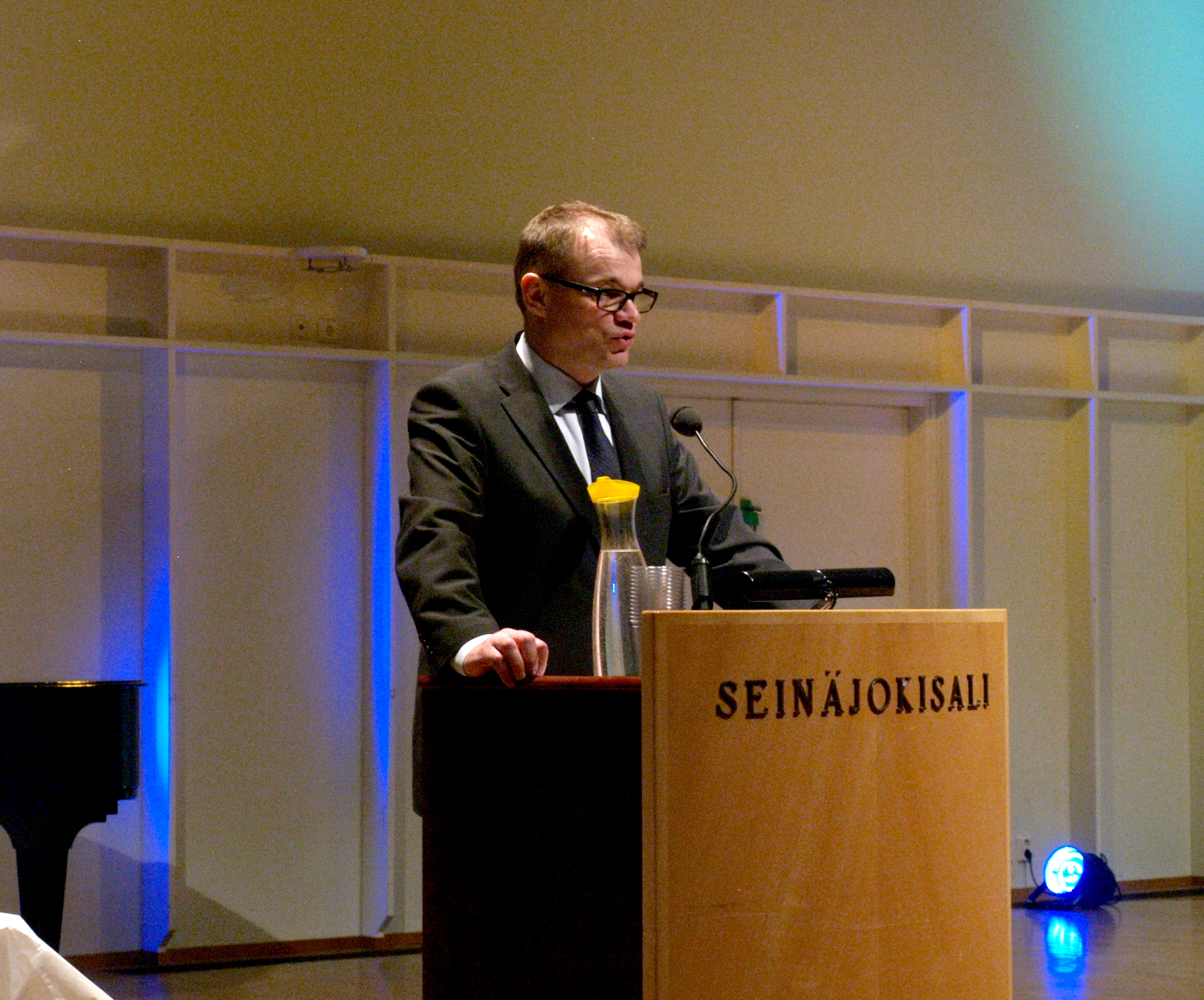 Juha Sipilä in Seinäjoki, 2015.